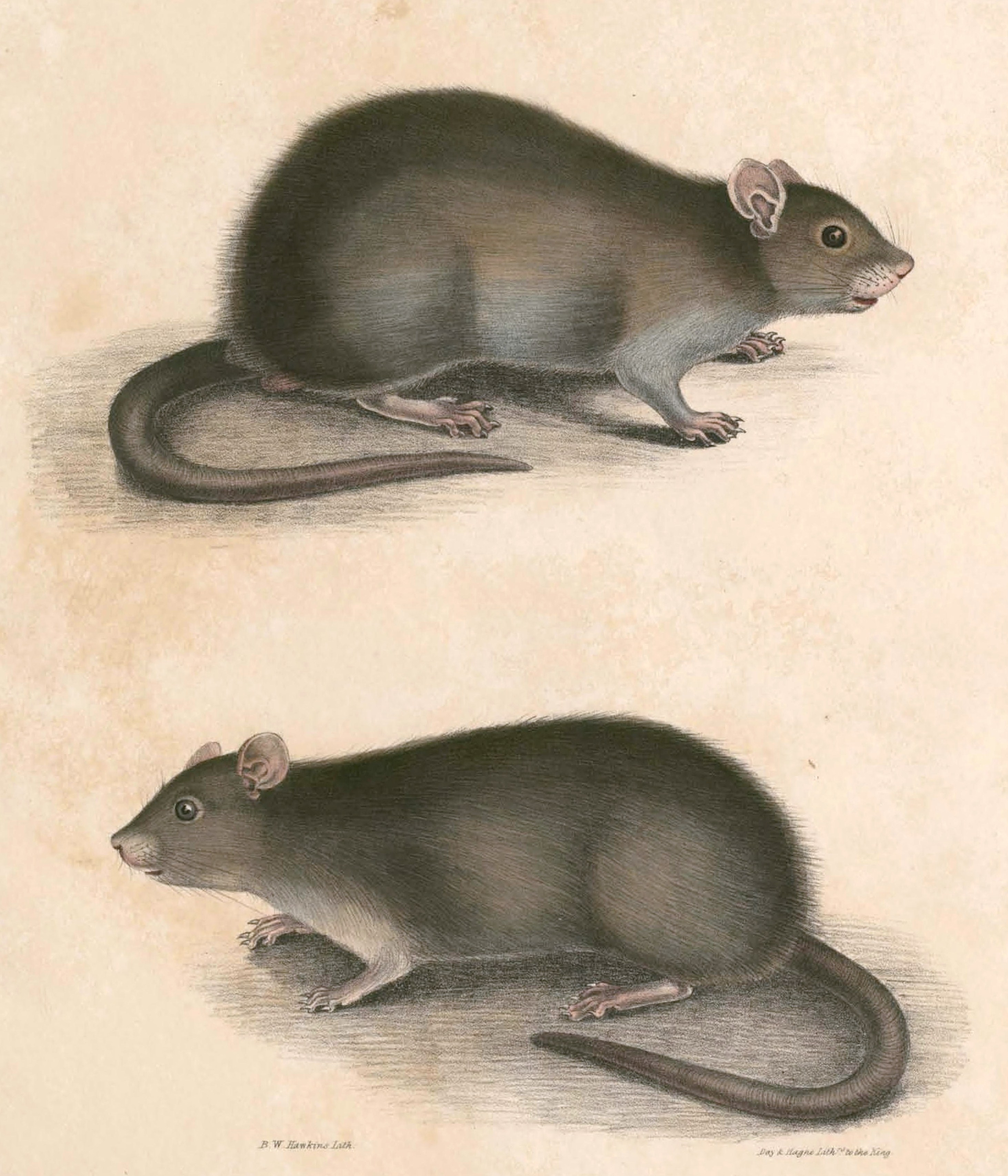 « Arvicola bengalensis » = Bandicota bengalensis (Lesser Bandicoot Rat)